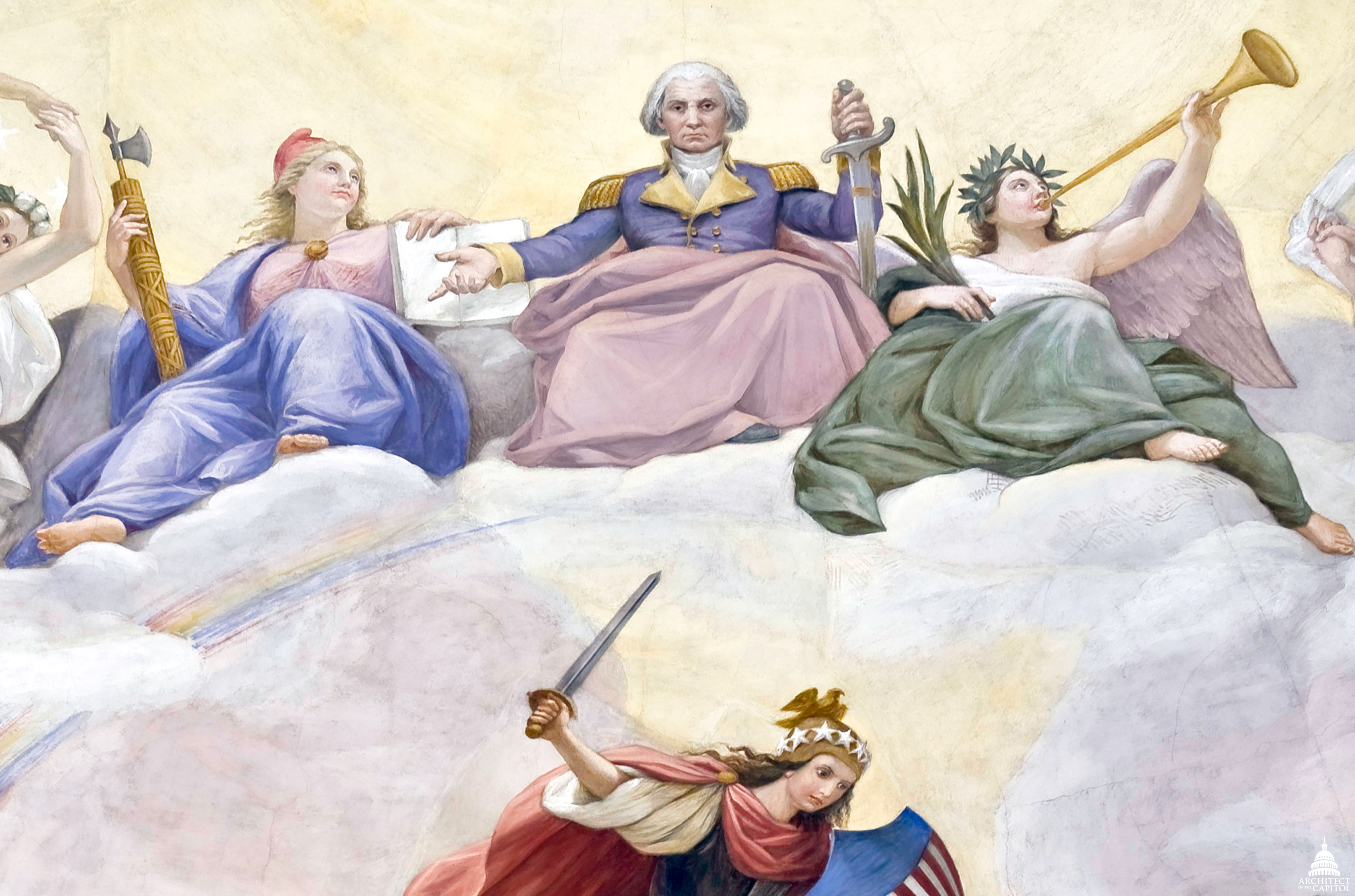 In the Apotheosis of Washington in the eye of the Rotunda of the U.S. Capitol artist Constantino Brumidi depicted George Washington rising to the heavens in glory, flanked by female figures representing Liberty and Victory/Fame. A rainbow arches at his feet, and thirteen maidens symbolizing the original states flank the three central figures. (The word "apotheosis" in the title means literally the raising of a person to the rank of a god, or the glorification of a person as an ideal; George Washington was honored as a national icon in the 19th century.